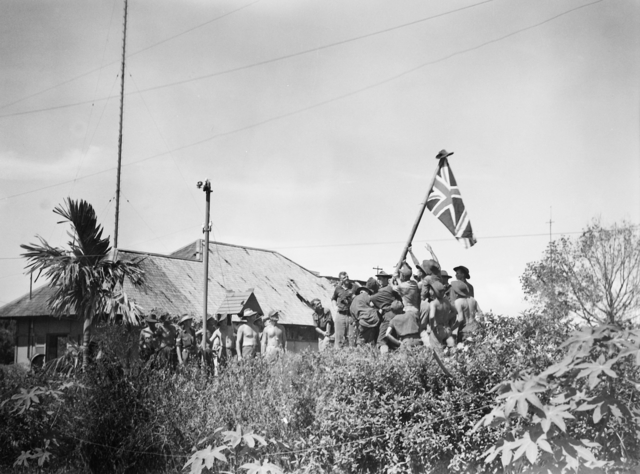 The Union Jack is raised outside a depot during the Australian invasion of Tarakan in May 1945.